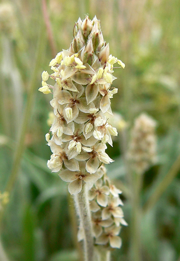 Photo of Plantago ovata in the desert west of Las Vegas, Nevada (just off the end of Tropicana Avenue)